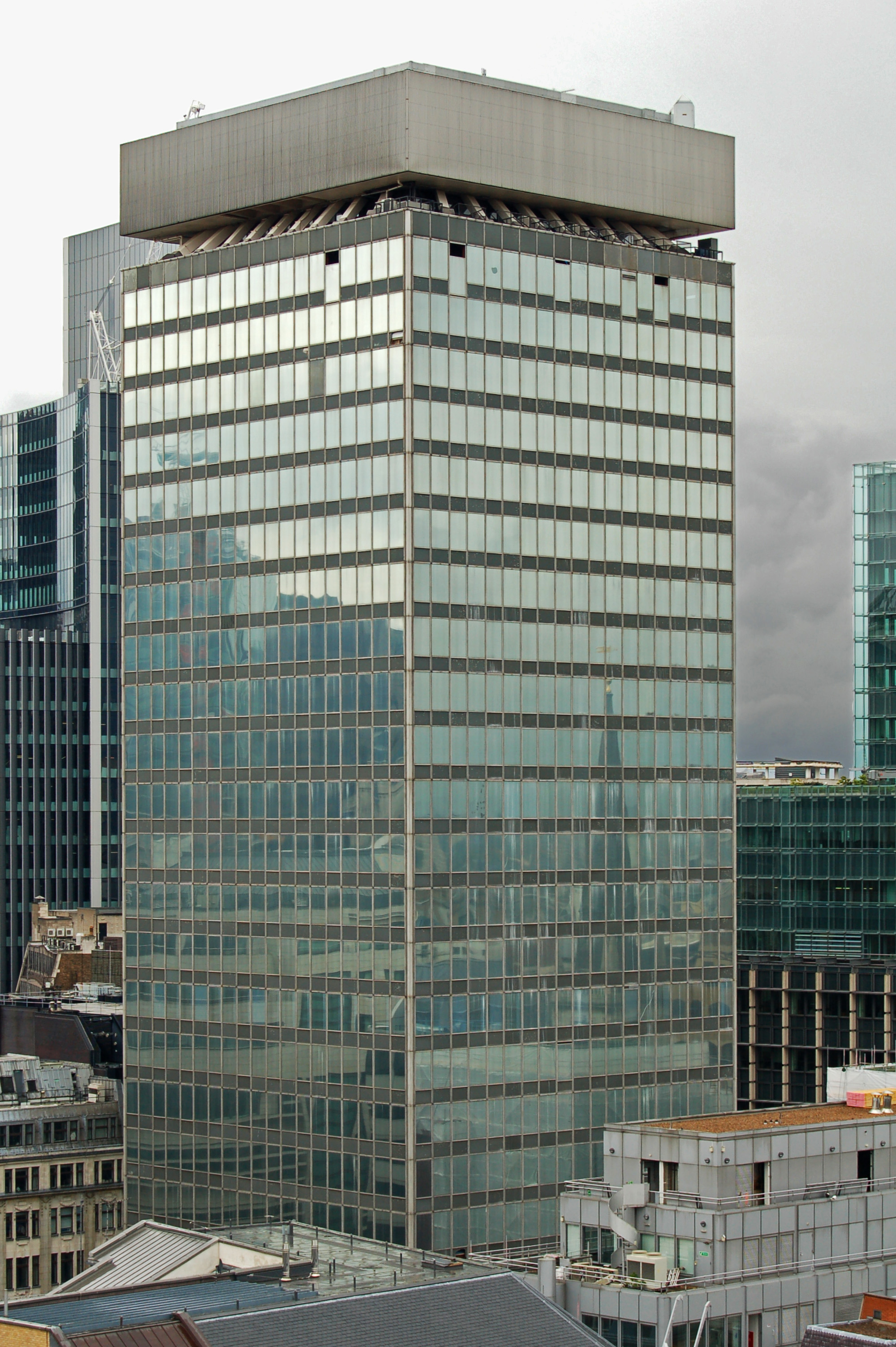 20 Fenchurch Street seen from the Monument to the Great Fire of London. Photograph by Artybrad.